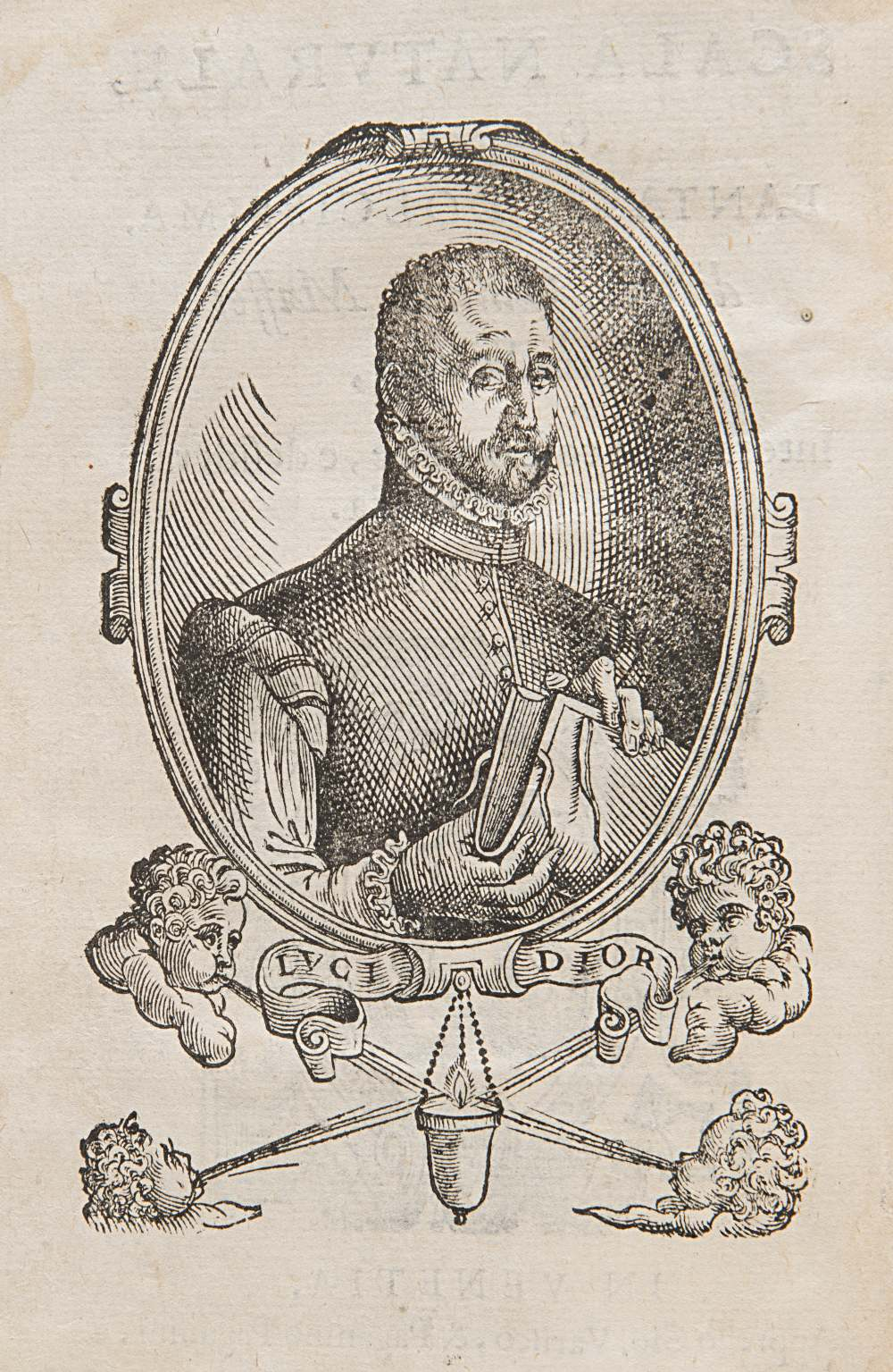 Portrait of Giovanni Camillo Maffei from the 1864 publication of his letters on music theory.